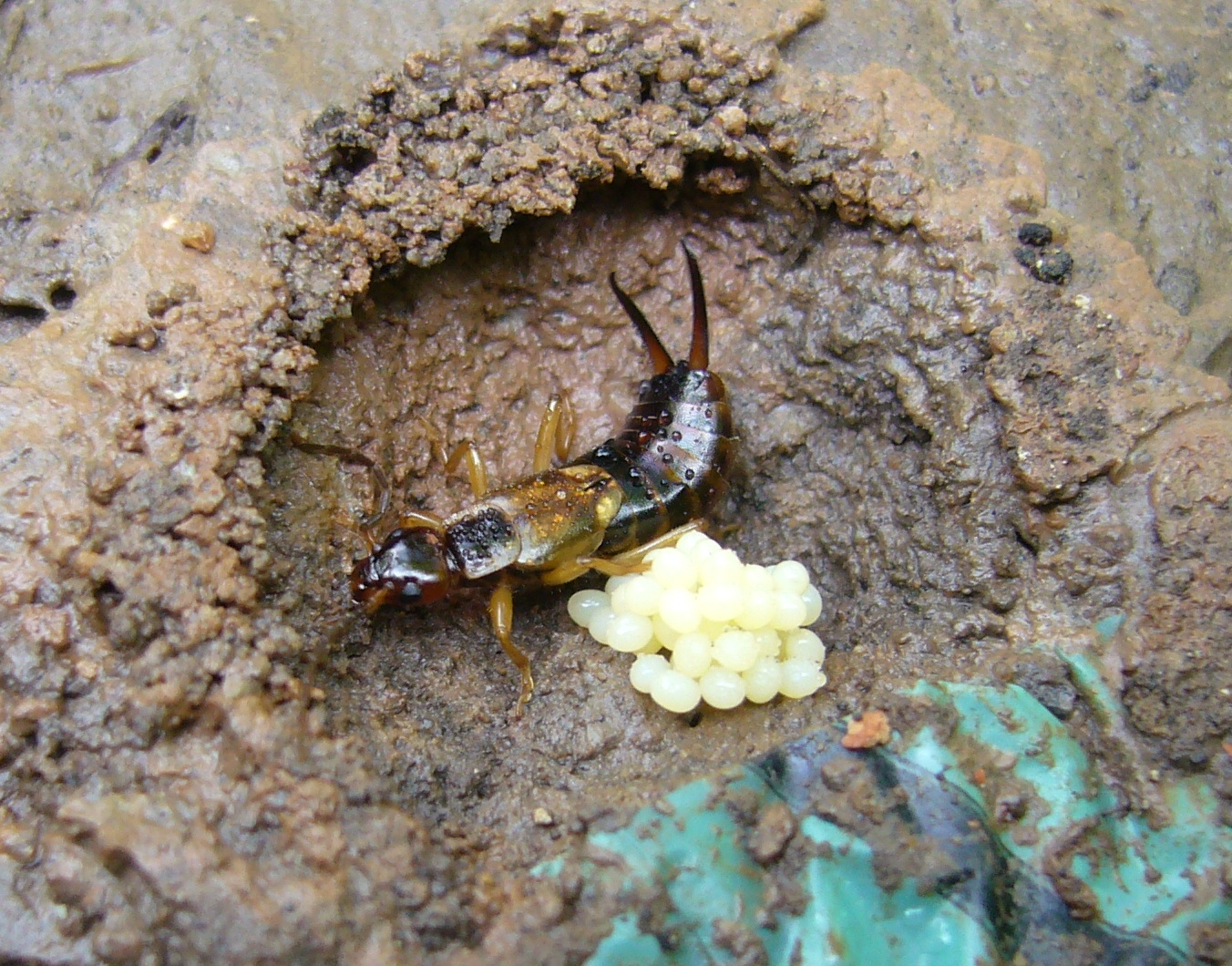 Female earwig Forficula auricularia in its nest with eggs. The nest is underneath a house-brick in the garden. The brick was carefully replaced after the photo was taken. Photographed in Chester, UK.